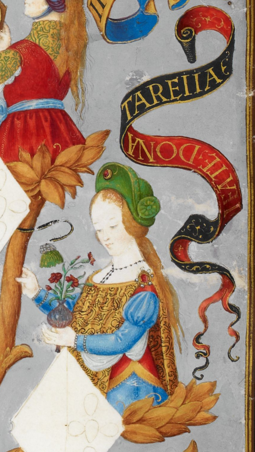 Theresa of Portugal (c. 1157-1218), daughter of King Afonso Henriques of Portugal, and Countess of Flanders.